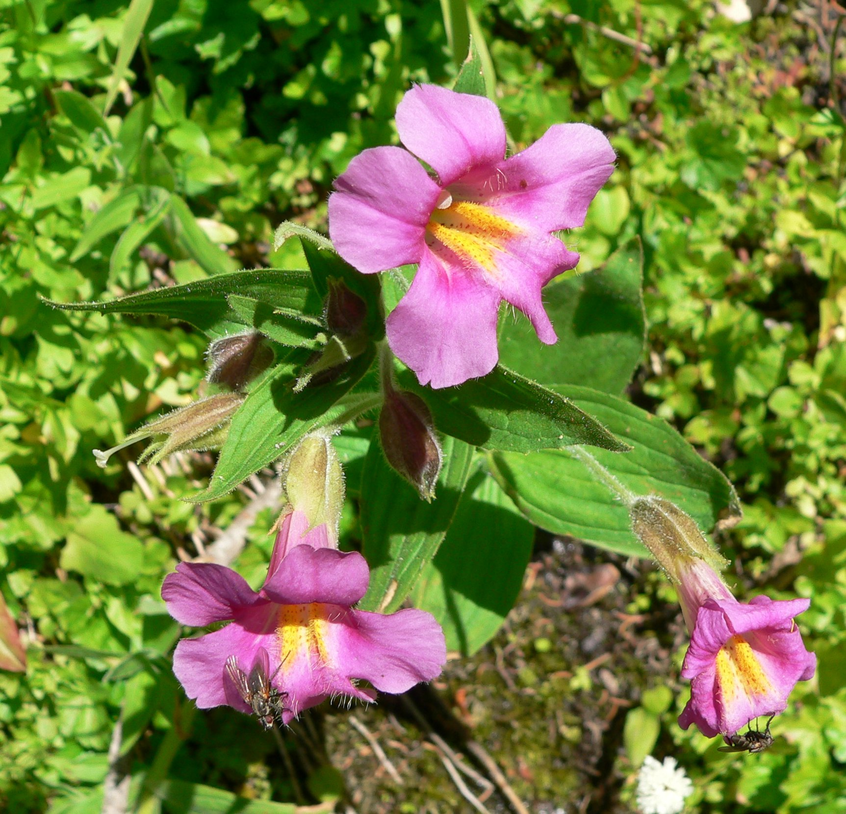 Lewis monkeyflower and pollinators; Castle Crest, Crater Lake National Park, Oregon, USA